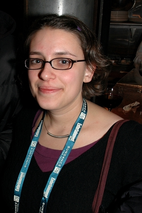 Ryan Fleck & Anna Boden of Half Nelson